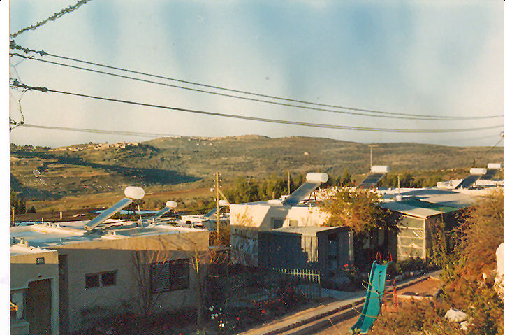 escovit at kedumim